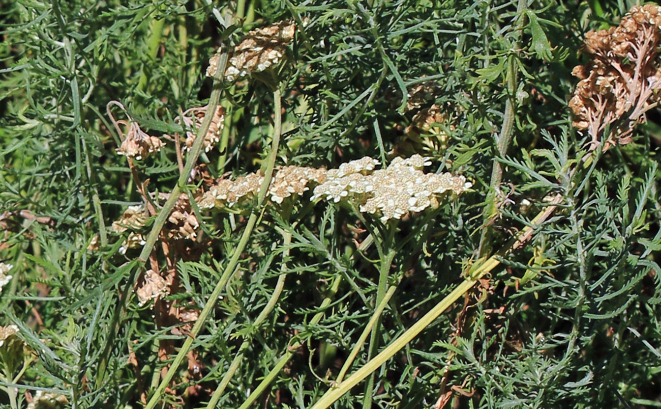 Plant Achillea crithmifolia from the Botanical Gardens of Charles University, Prague, Czech Republic